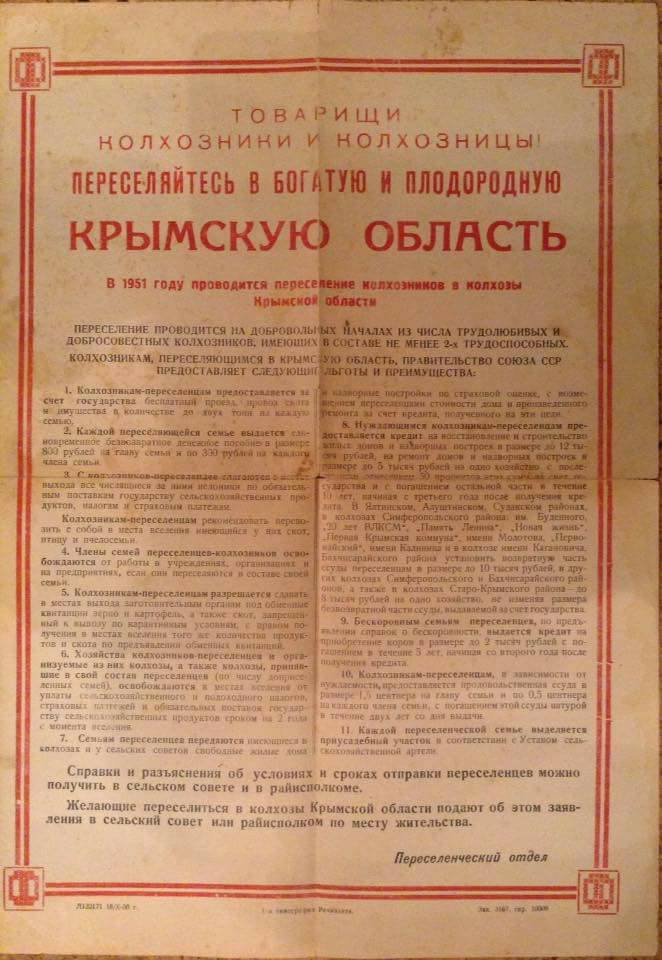 Agitation flyer for Crimea resettlement by Russians. Promising benefits and financial aid for new coming Russian families for fertile Crimean region, late 1940-ies early 1950-ies.